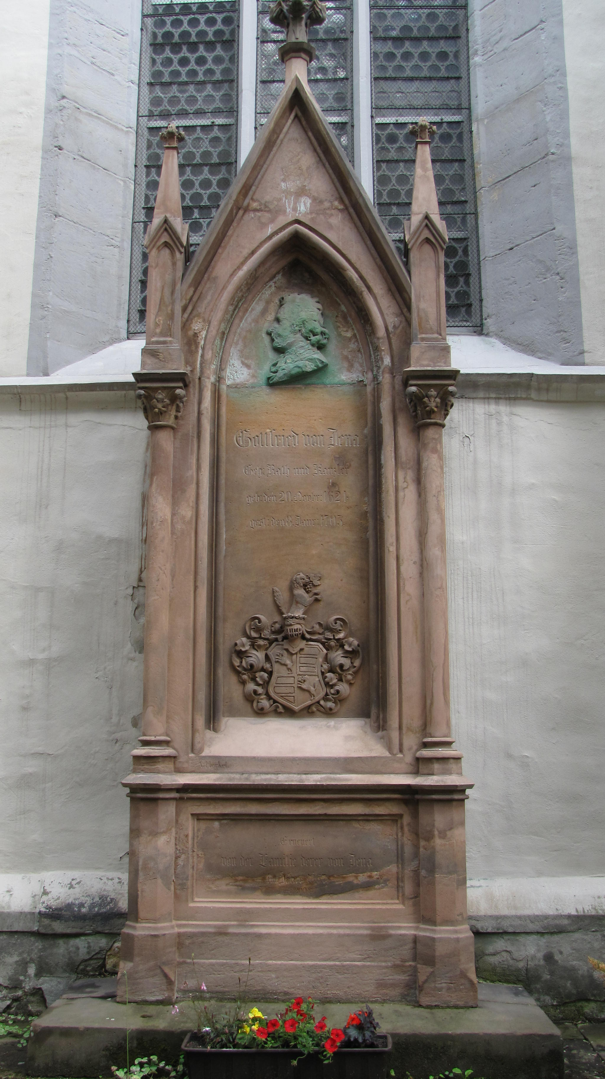 Grave of Gottfried von Jena at Dom zu Halle